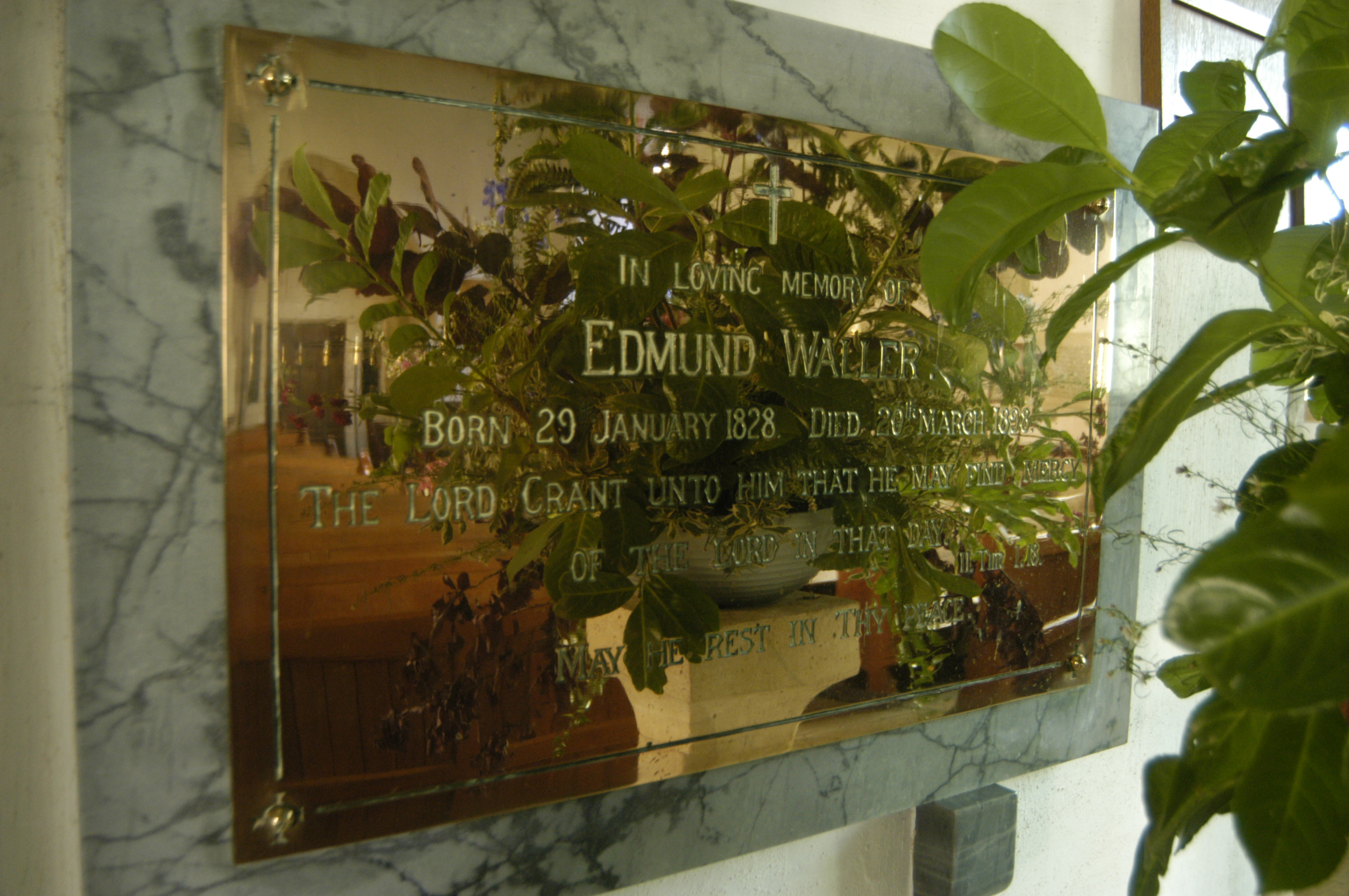 Photo (by me, R. de Salis, Rodolph (talk) 23:25, 20 September 2015 (UTC)) of a brass plaque to Edmund Waller (1828-98) in church of St. Peter's, Farmington, Gloucestershire.